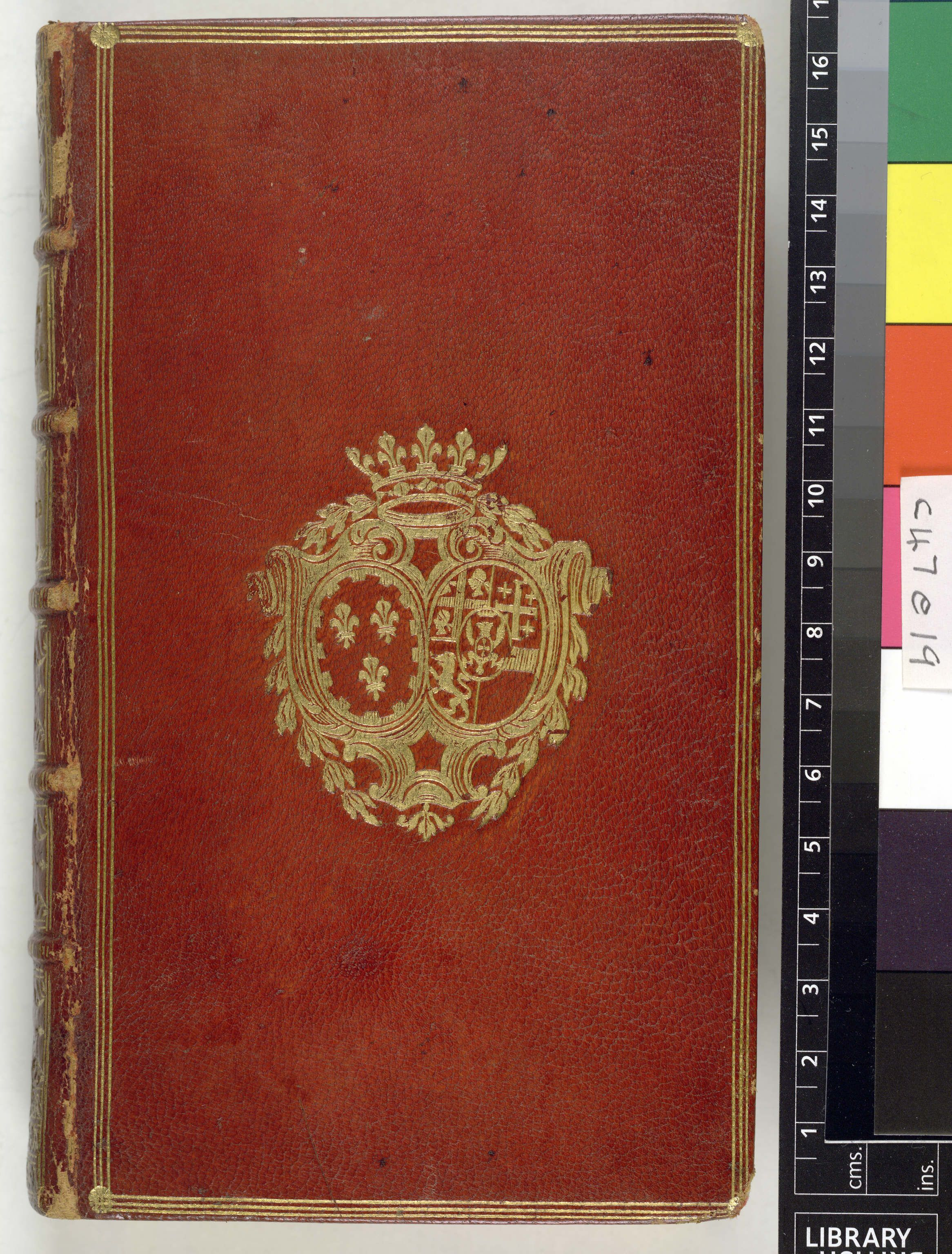 Style: Armorial; Caption: Upper cover; Colour: Red; Edge: Unspecified